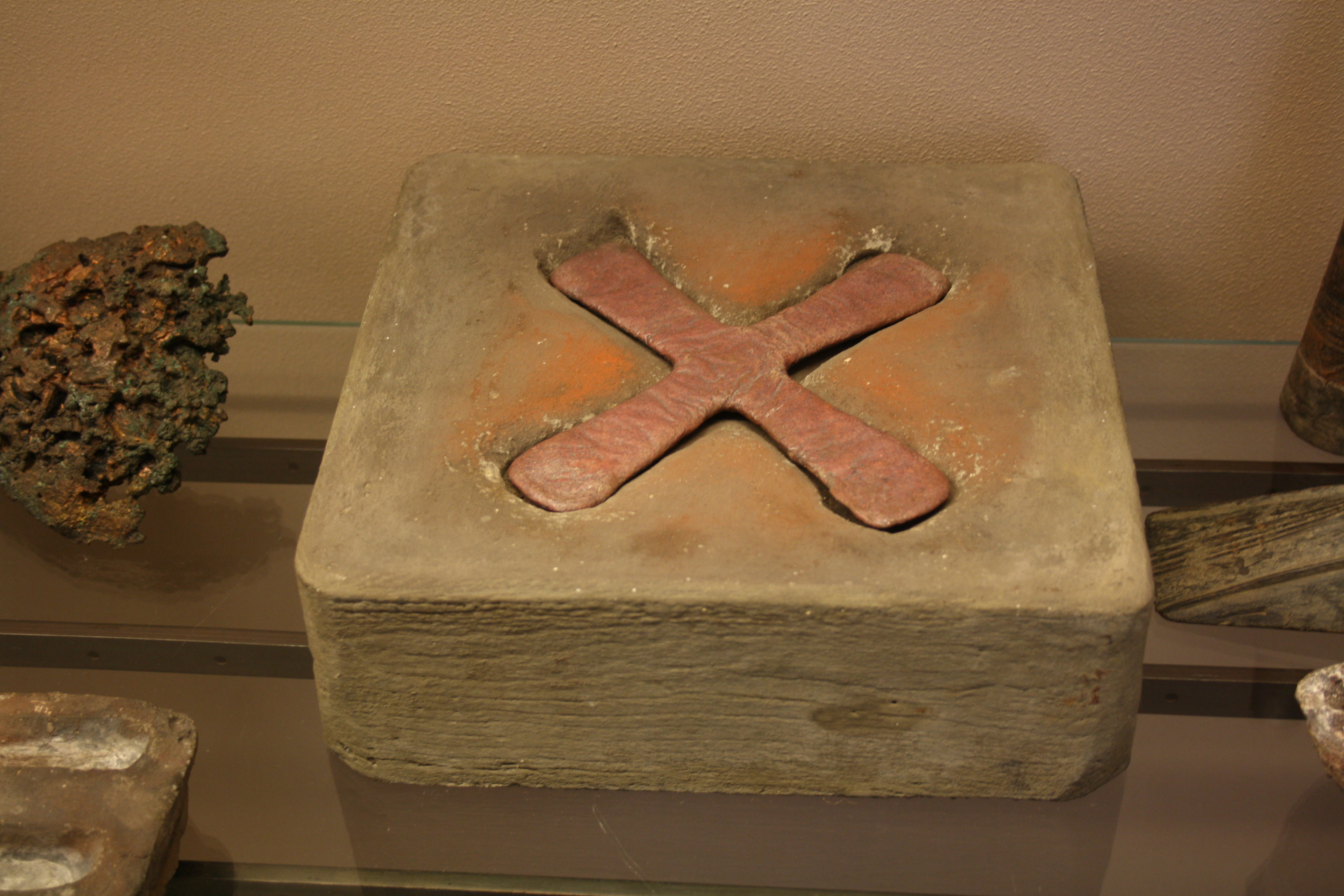 Mold for metal in the metallurgy exhibit in the Royal Museum for Central Africa, Tervuren, Belgium.